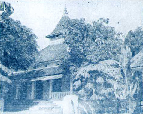 Jombang Mosque, where the movement of Nahdlatul Ulama was born